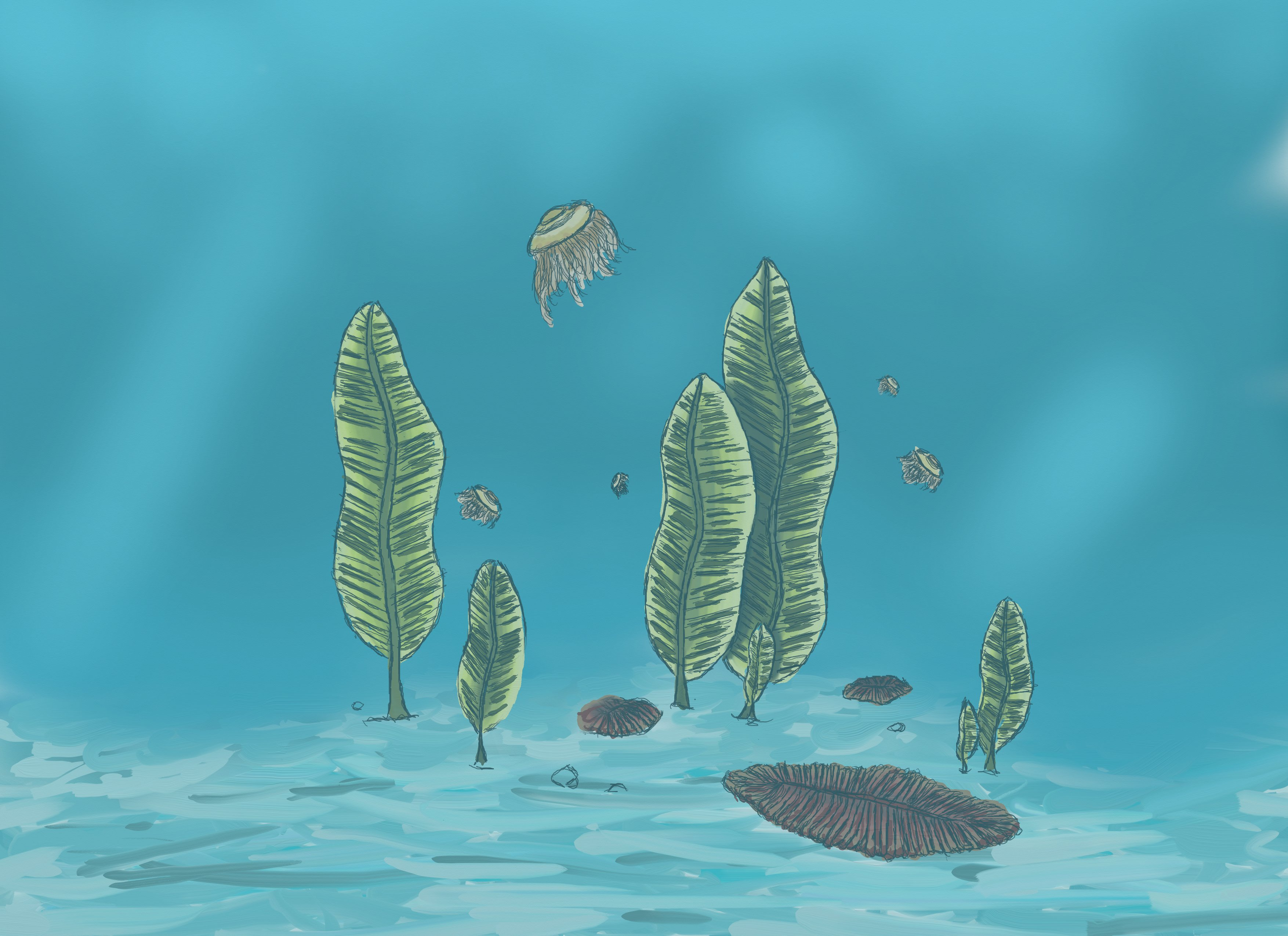 Fauna of the Edicarian with, from left to right, Charnia, a sea jelly, and Dickinsonia.